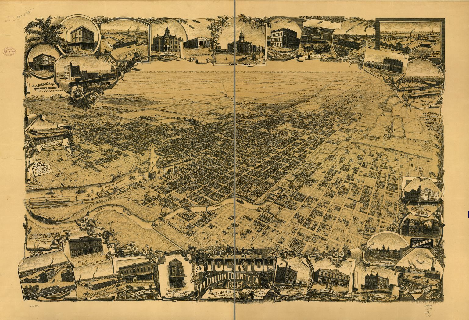 Stockton California 1895 aerial view